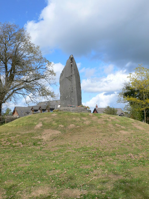 Llewelyn's Monument at Cilmery The village of Cilmery is famous for being close to the spot where the last native Prince of Wales, Llywelyn ap Gruffudd, was slain by soldiers in the service of Edward I of England, on 11 December 1282. This memorial stone to Llywelyn ap Gruffudd was erected on the site in 1956 and serves as the focal point for an annual day of remembrance on the anniversary of his death.